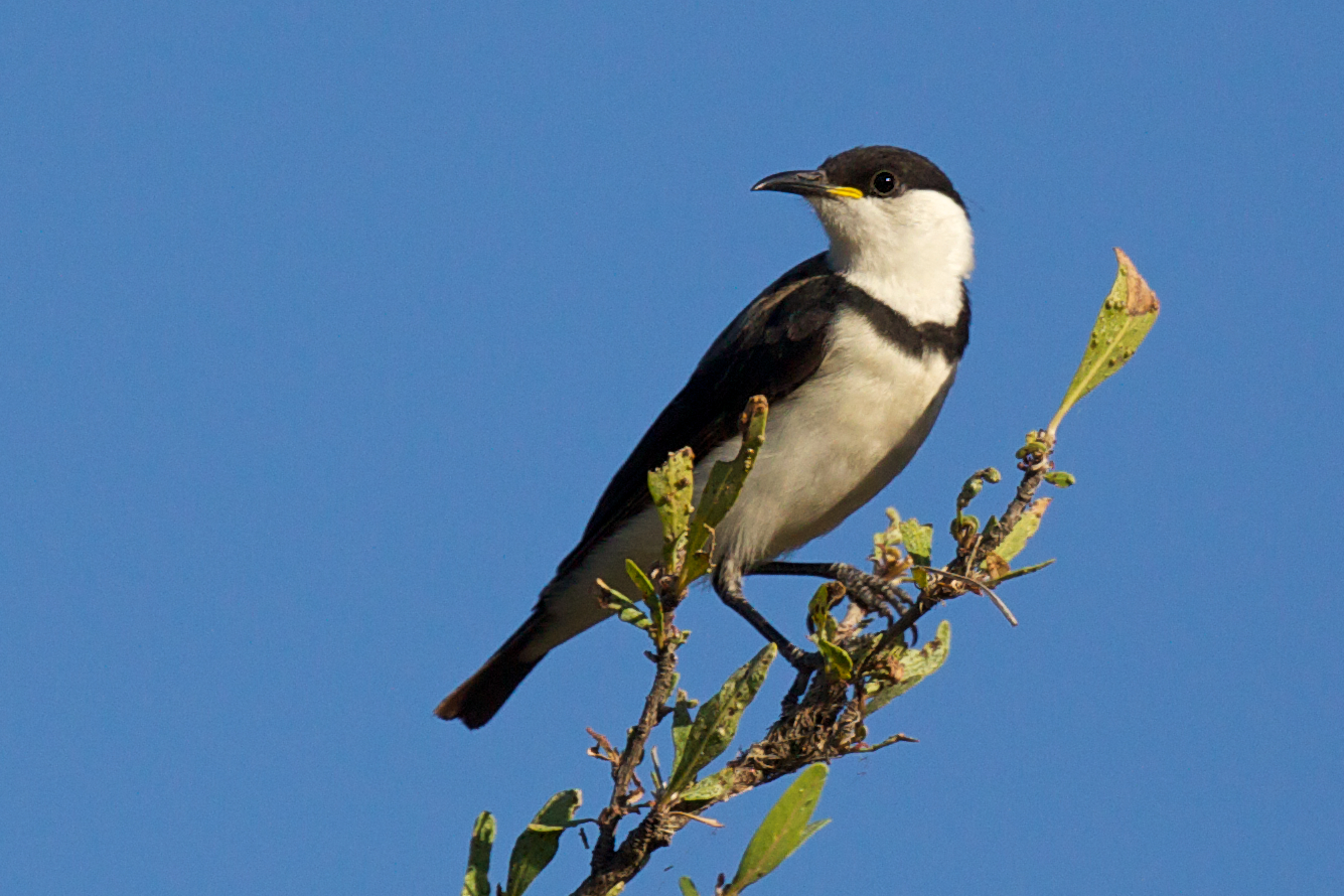 Certhionyx pectoralis: creek crossing, Mornington Wildlife Sanctuary, Kimberley, Western Australia.